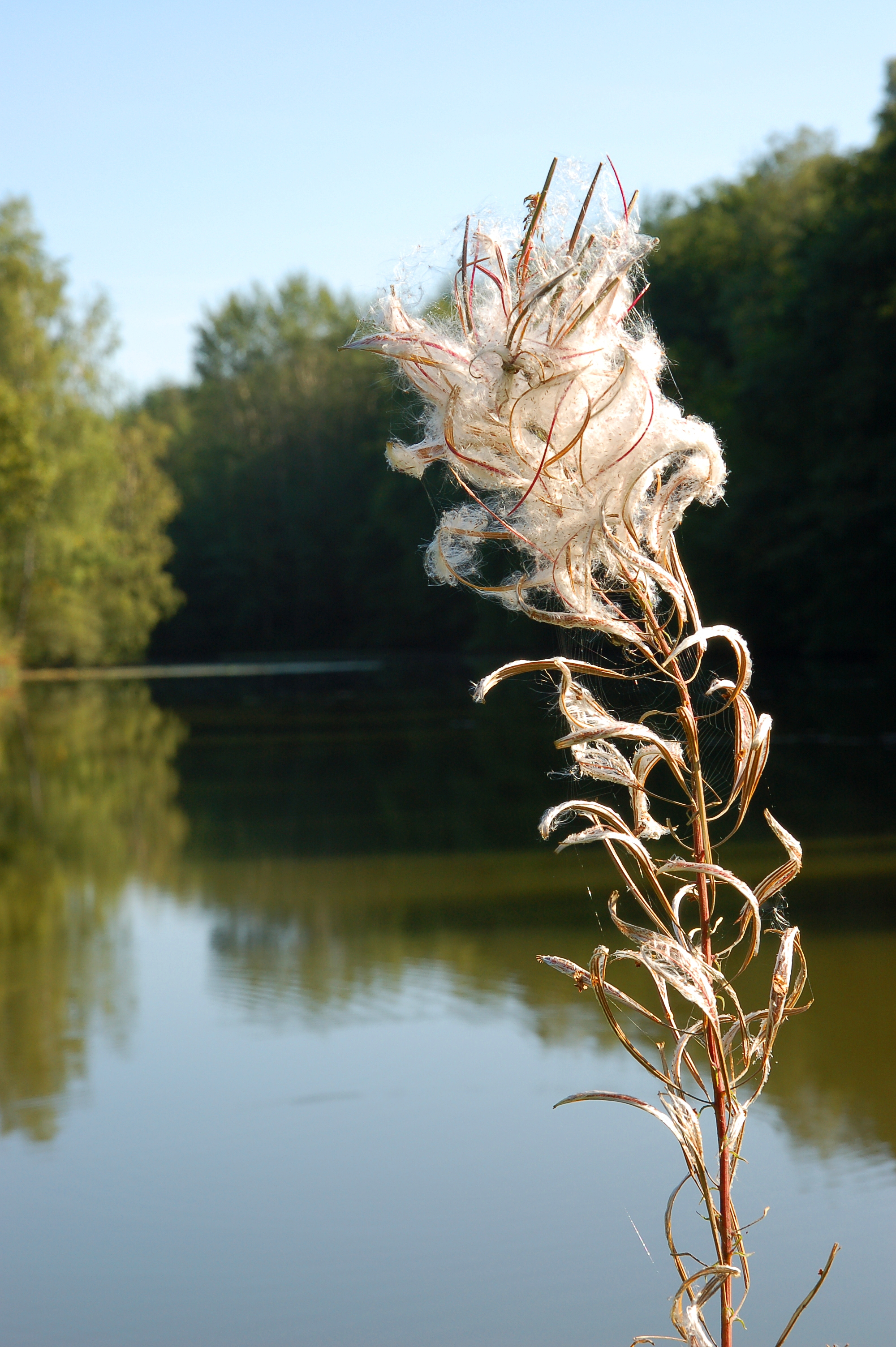 Epilobium angustifolium in Belgium (Chapois).